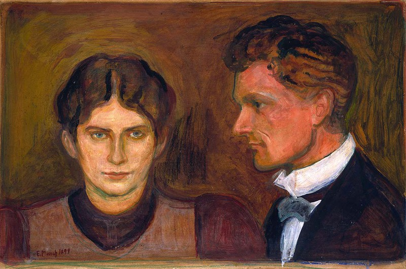 Aase and her husband, barrister Harald Nørregaard, painted by Edvard Munch. Harald Nørregaard was a close friend and supporter of Munch, and was Chairman of the Norwegian Bar Association and founded the notable law firm (now known as) Advokatfirmaet Hjort